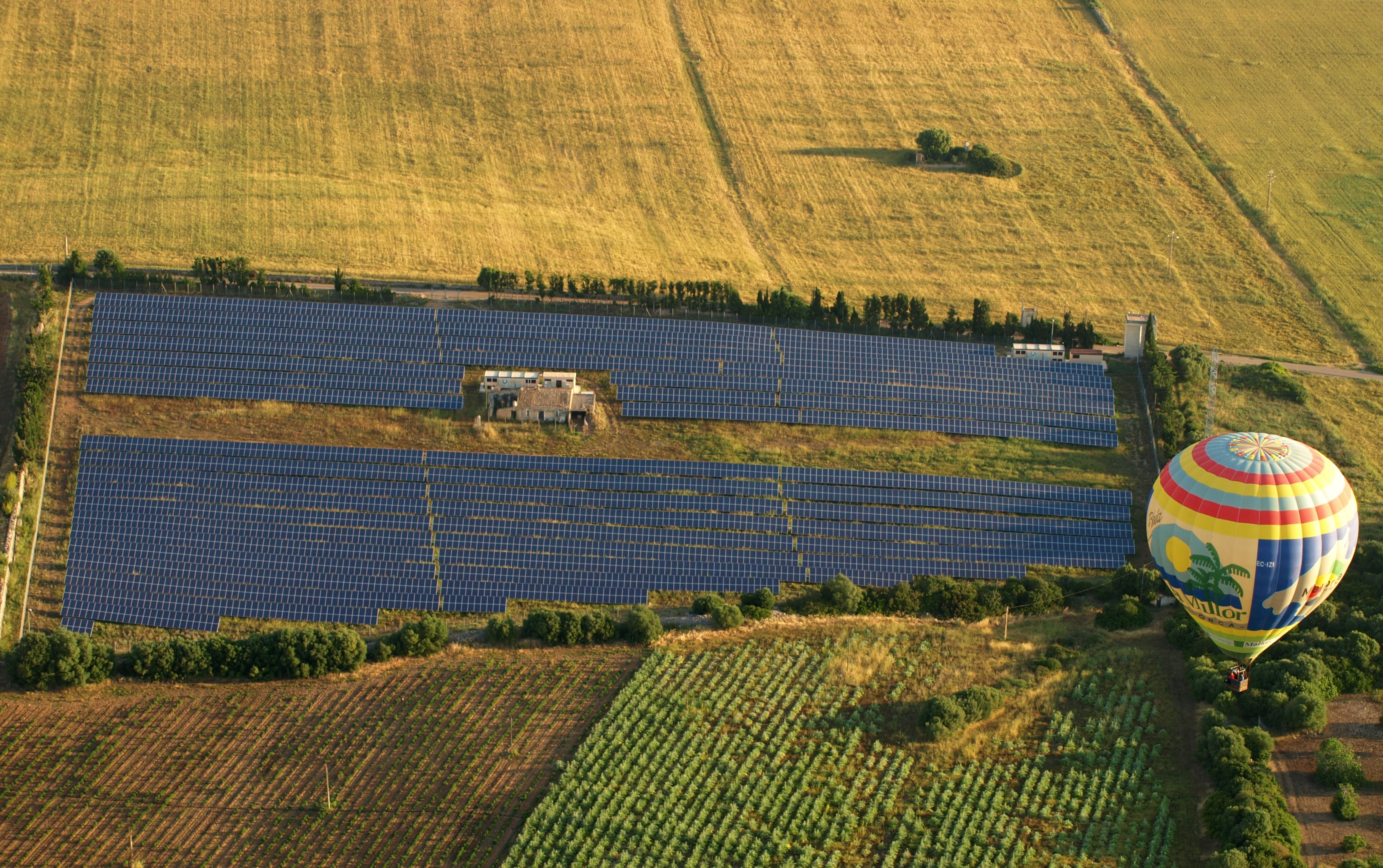 Balloon excursion over Manacor; Place Son Perot, Manacor, Mallorca